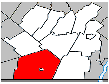 Location of Hemmingford (township), Quebec within Les Jardins-de-Napierville Regional County Municipality.